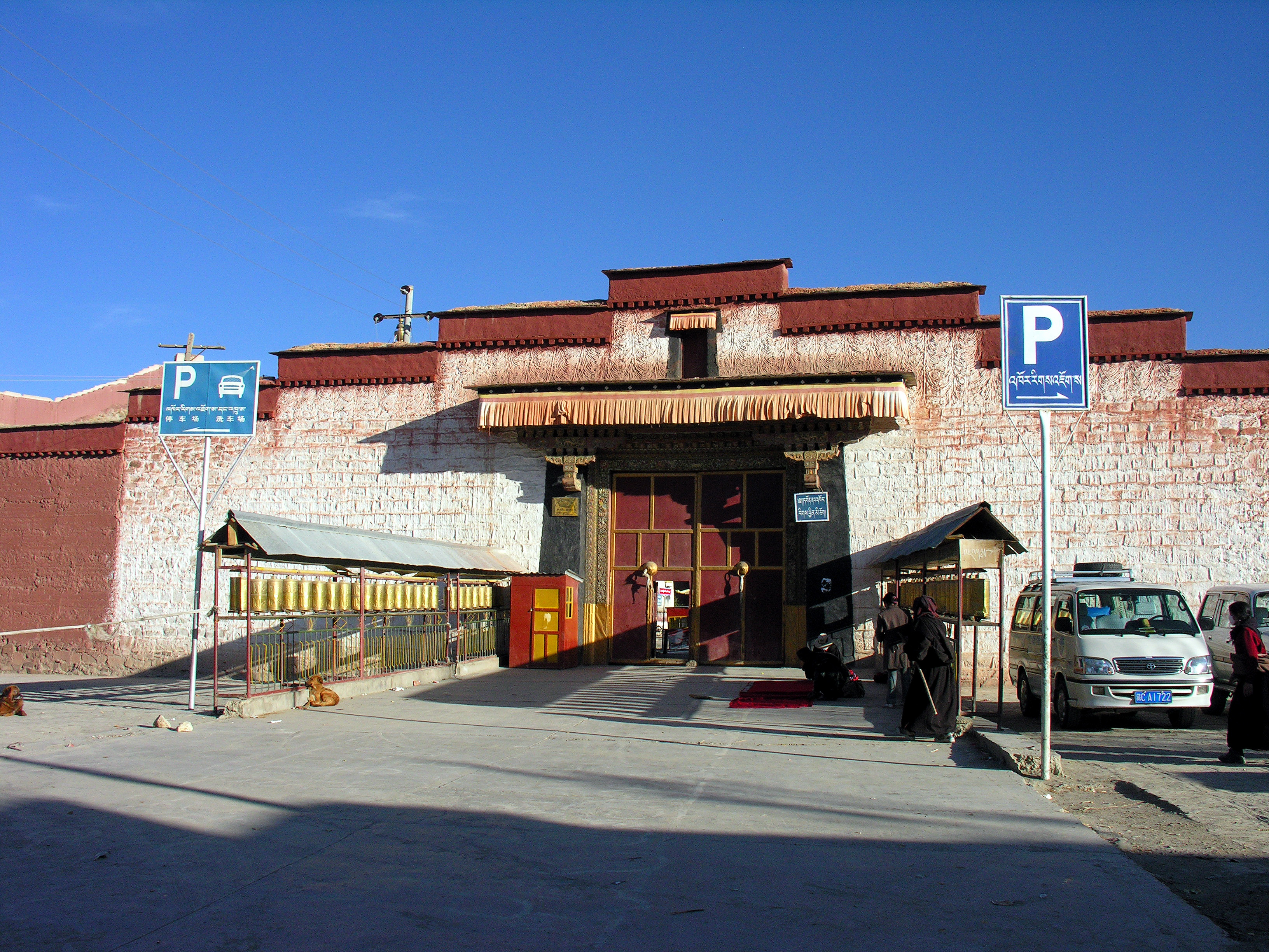 The Baiju Monastery was built by Yaodan Gongsangpa and Tsongkhapa's disciple Khedrub Je in 1418. Its unique feature is that three sects. the Sa-kya-ya, Ka-tam-pa, and Ge-lug-pa, had their headquarters in it -- a rare phenomenon in Tibet. It also features its "Bodhi stupa", or "Kumbum" in Tibetan. Deemed as the symbol of the monastery, the spectacular "stupa" consists of hundreds of chapels in layers, housing about a hundred thousand images of various icons. Gyangtse, Tibet